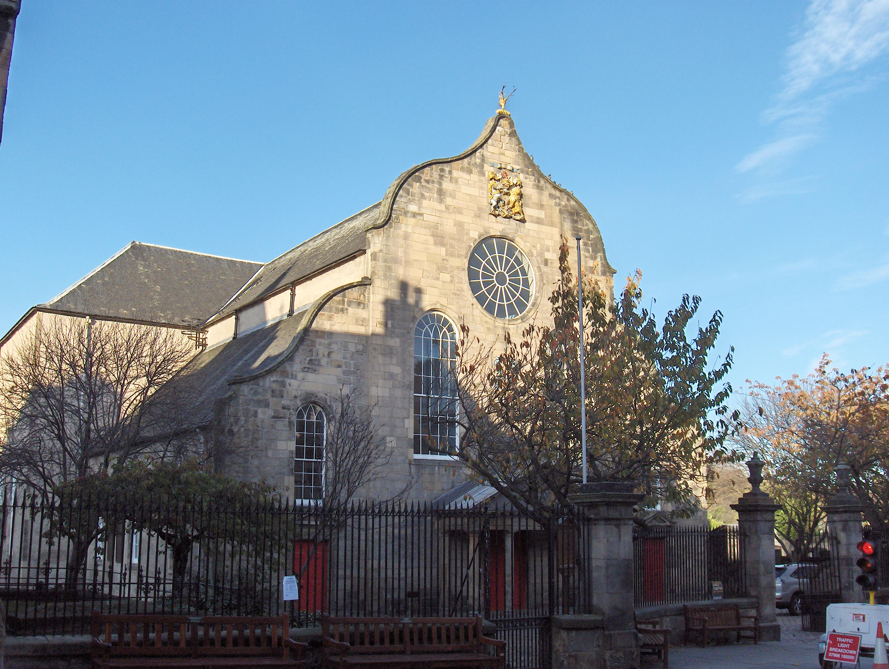 Canongate Kirk Edinburgh front view